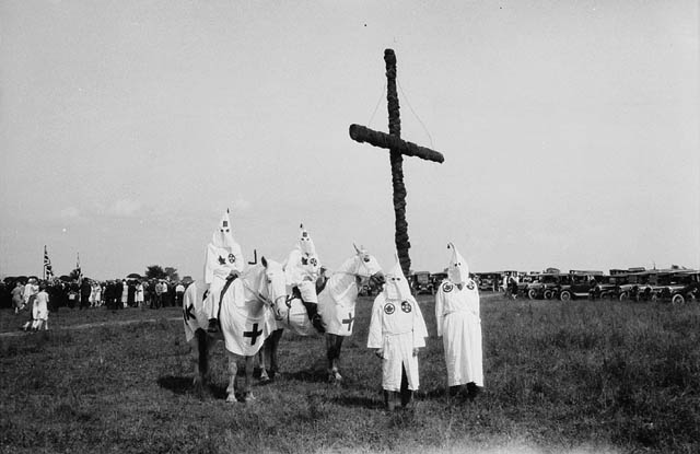 Ku Klux Klan at a gathering near Kingston, Ontario, Canada in 1927